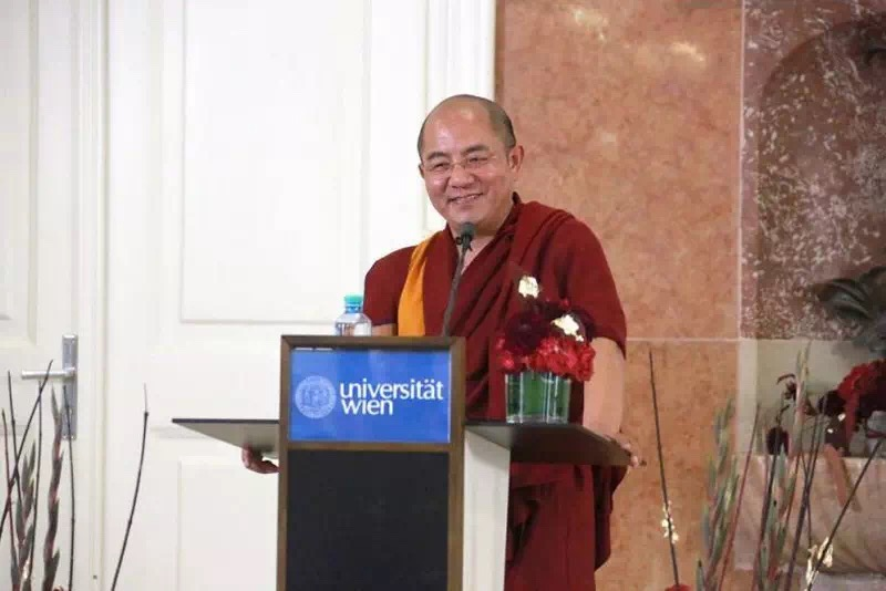 2015 Khenpo Sodargye Talk in Austria